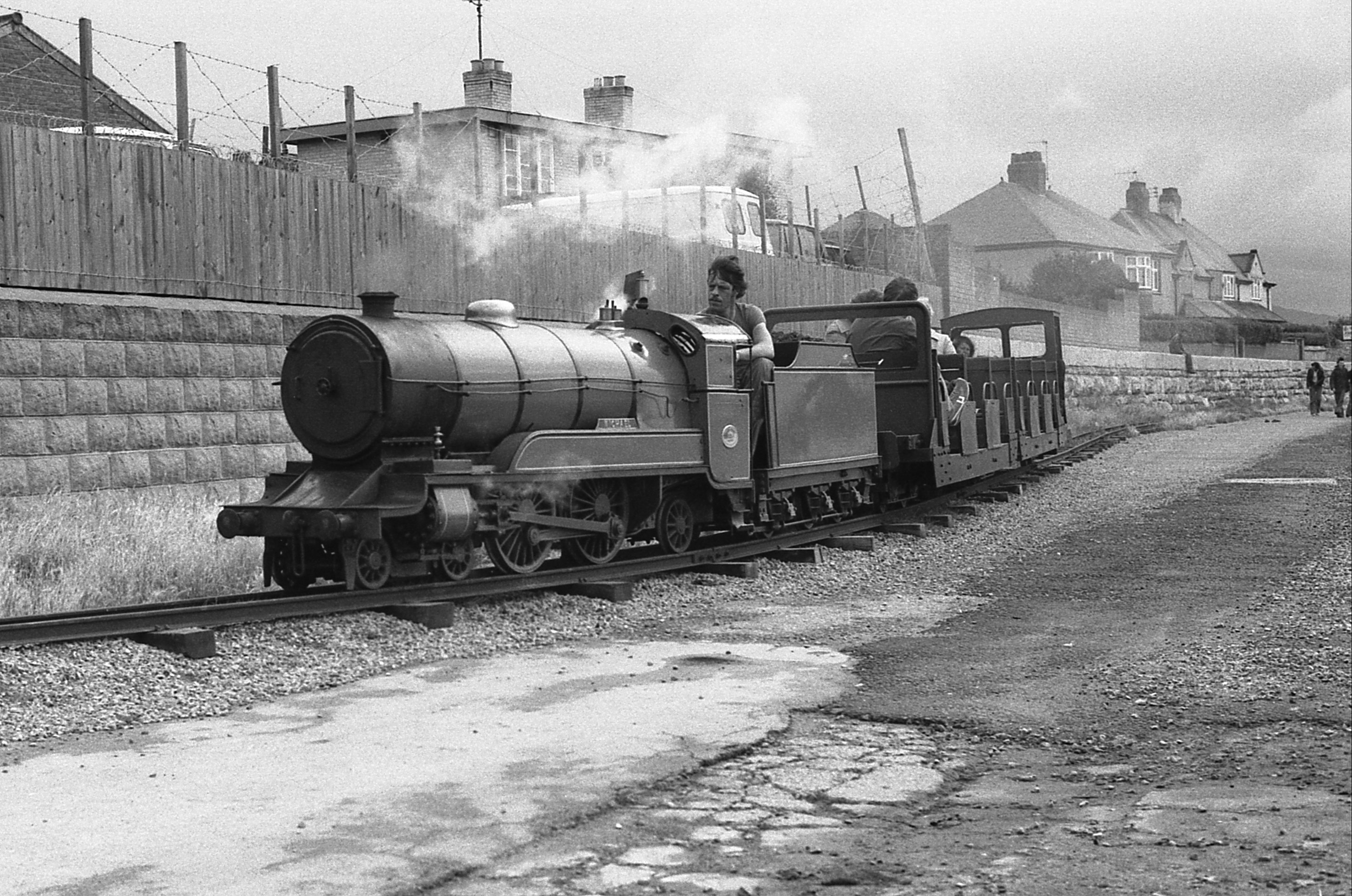 Rhyl Miniature Railway 4-4-2 'Atlantic' steam engine "Michael" breezily working a very light train in 1978. Camera: Olympus OM1 35mm SLR. Film: Kodak.